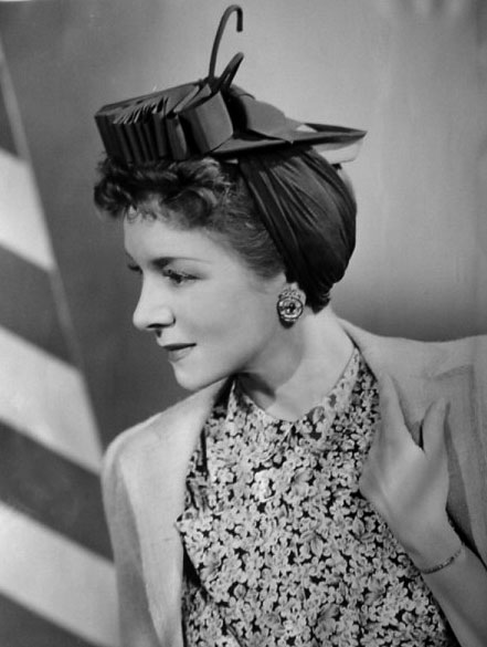 Promotional photograph of actor Helen Hayes (1940)